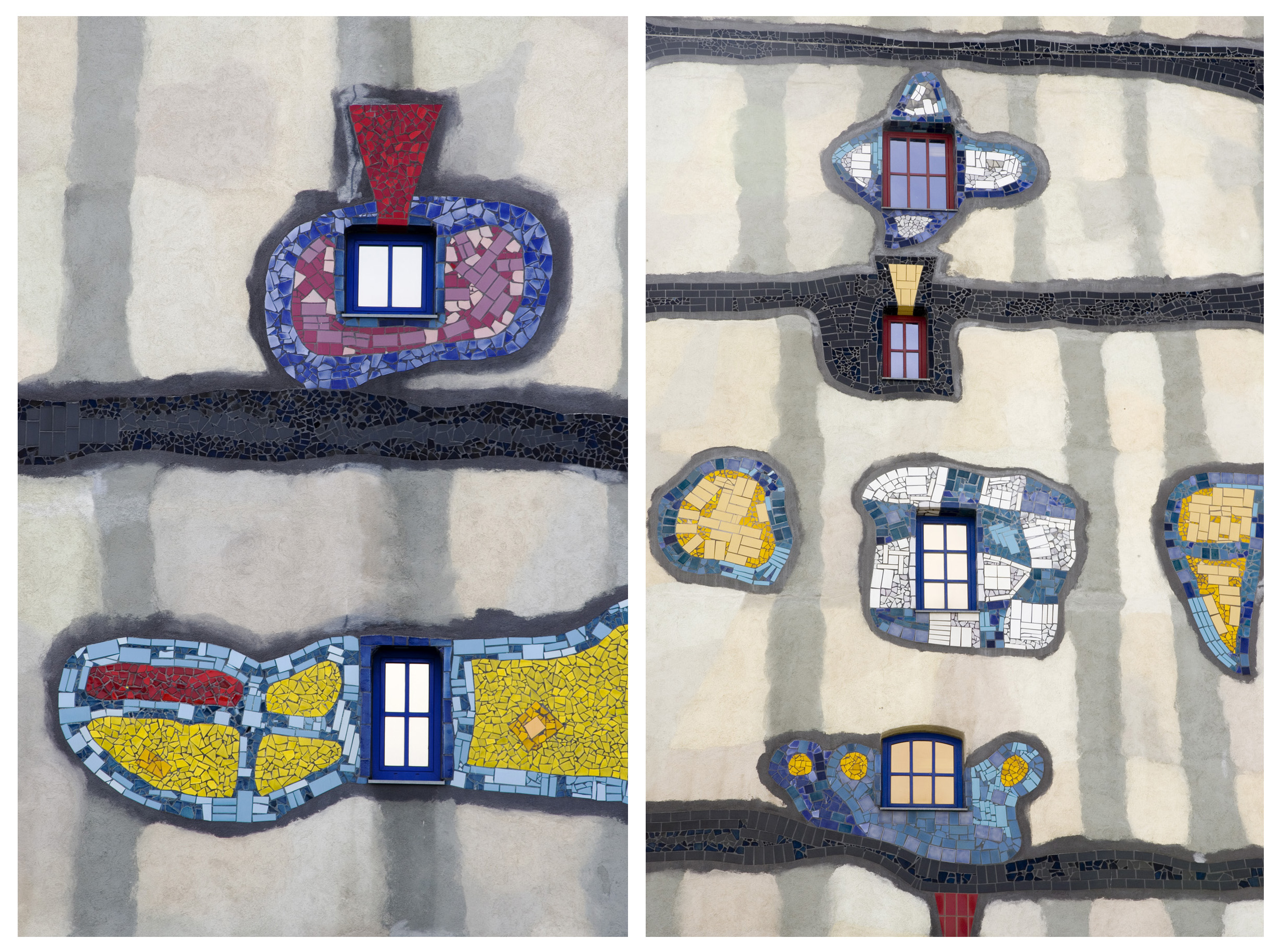 Friedensreich Hundertwasser architecture in Vienna - details of Spittelau incinerator windows